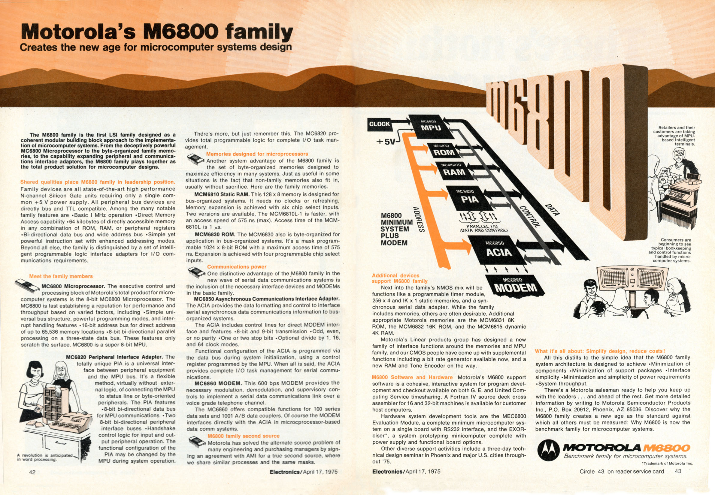 Motorola M6800 family microcomputer system introductory advertisement from April 1975. The Motorola MC6800 8-bit microprocessor was announced in March 1974 and shipments of the M6800 family of MPU, RAM, ROM and peripherals began in December 1974. "Motorola joins microprocessor race with 8-bit entry", Electronics (McGraw-Hill), 47 (5), pp. 29-30, March 7, 1974. "Microcomputer system runs on one 5-V supply", Electronics (McGraw-Hill), 47 (26), pp. 114-115, December 26, 1974. "Motorola's M6800 microcomputer system … is moving out of the sampling stage and into full production."